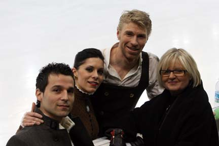 Isabelle DELOBEL and Olivier SCHOENFELDER at the boards with their coachs Muriel Zazoui and Romain Haguenauer at the 2007-2008 Grand Prix Final